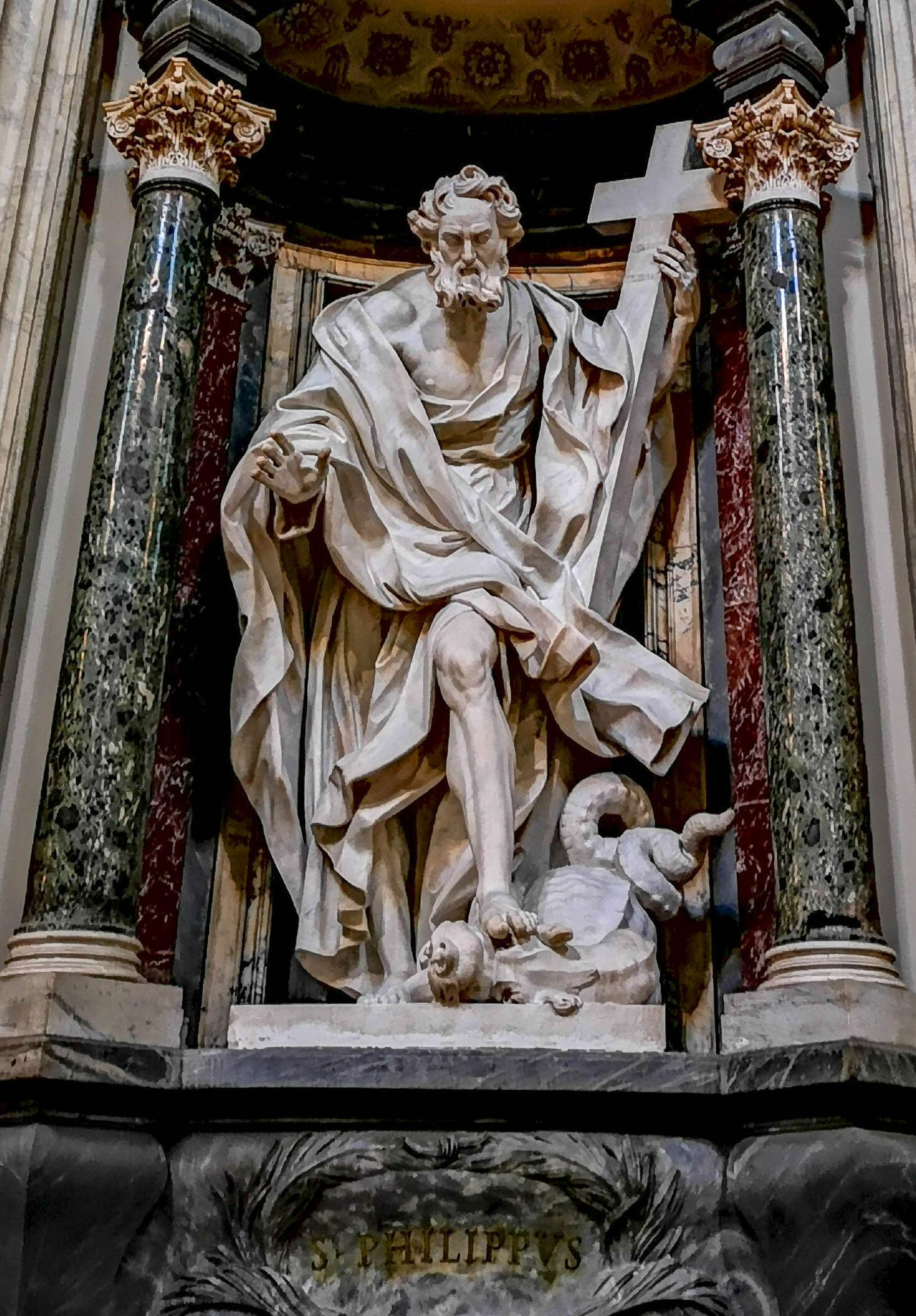 Philip the Apostle - statue in the Archbasilica of St. John Lateran by Giuseppe Mazzuoli